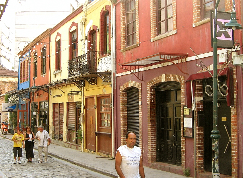 A street in the Ladadika neighbourhood, which used to be the Jewish quarter in Thessaloniki, Greece.